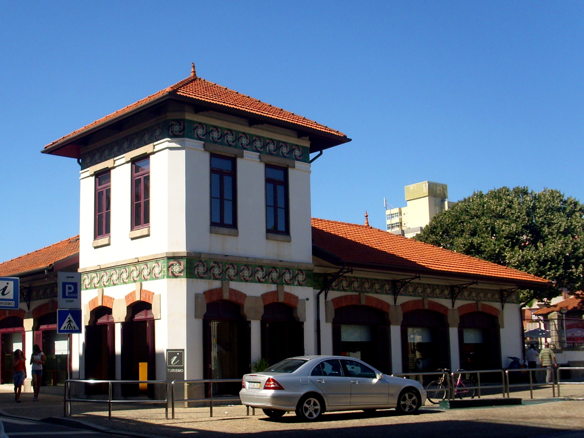 Tourism office in Póvoa de Varzim's 1904 Public Market